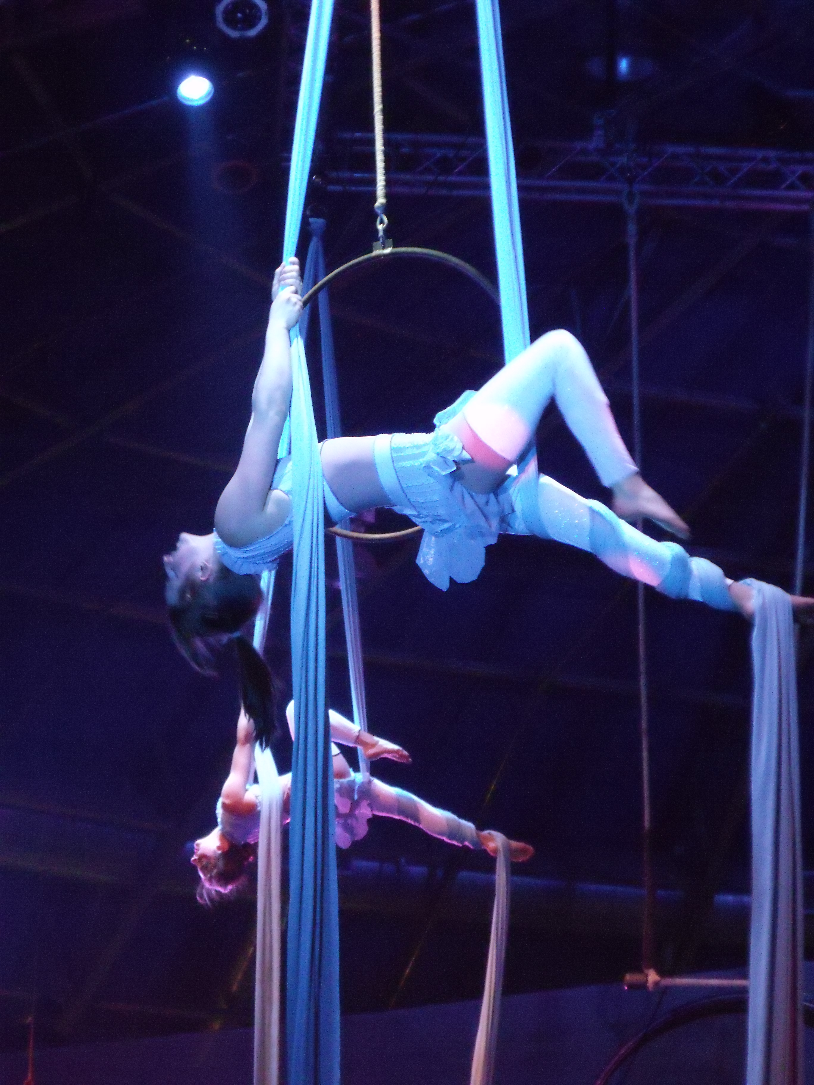 Circus students at Circus Juventas performing on silks in the 2010 August show, Sawdust.